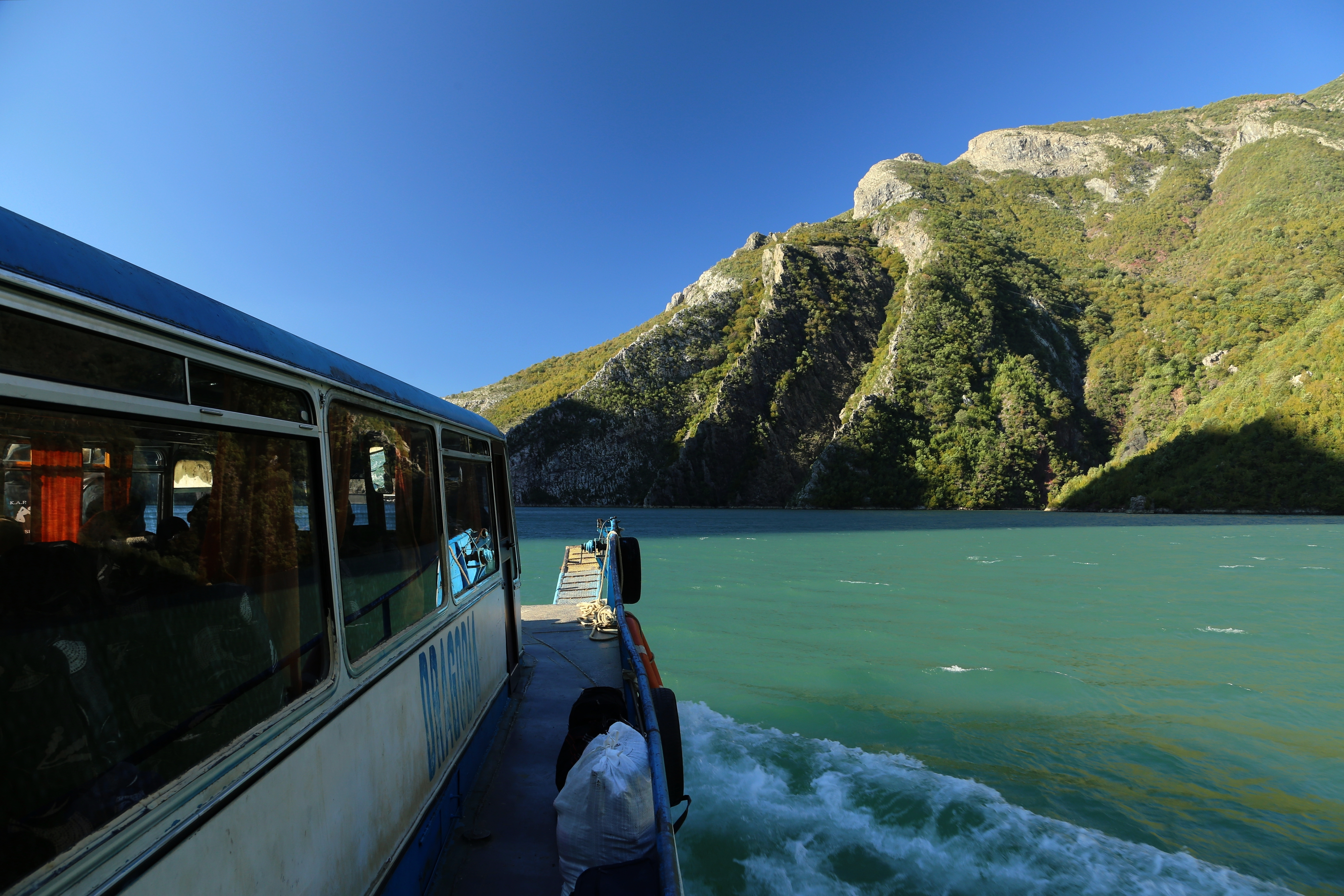 Lake Komani, Albania. Shot from the passenger ferry.